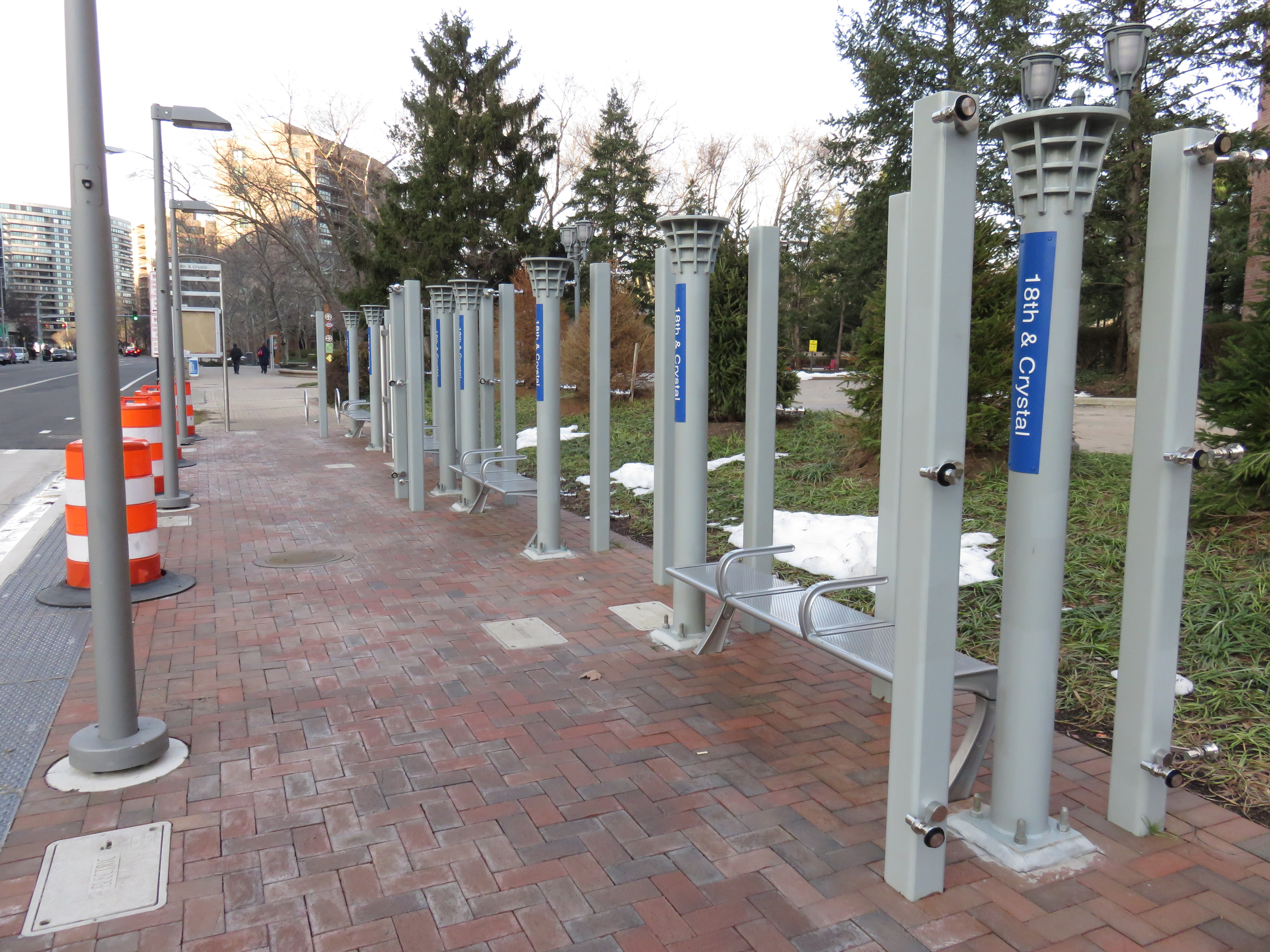 18th & Crystal Metroway station in Crystal City, Arlington, Virginia under construction in February 2016